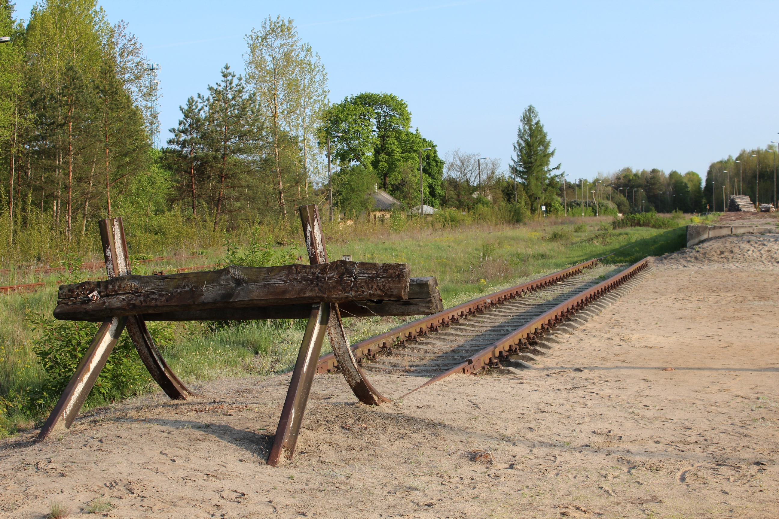 Sobibór german extermination camp